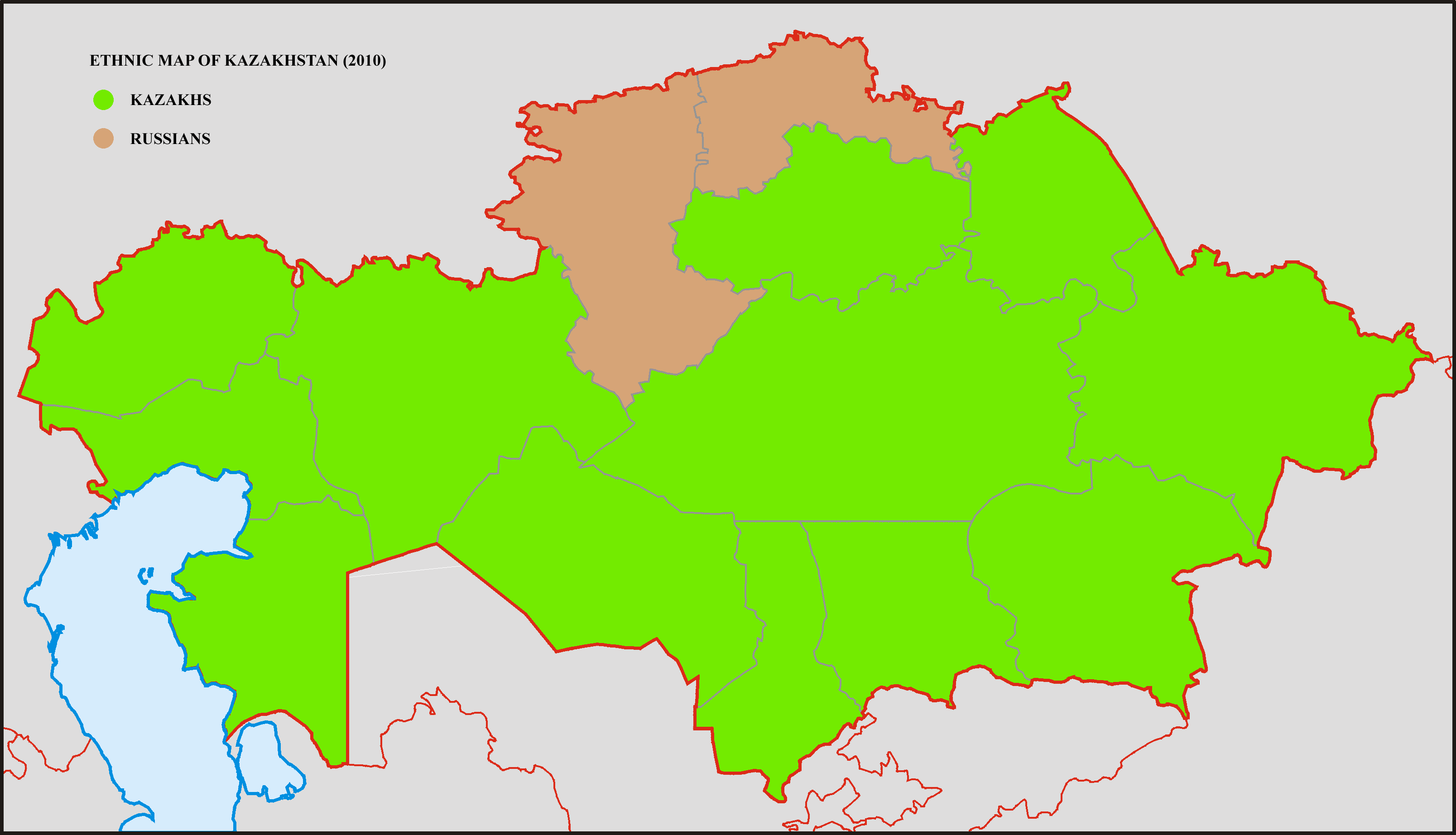 Ethnic map of Kazakhstan (2010) Sources: 1. 2. Kazakhstan census, 2010